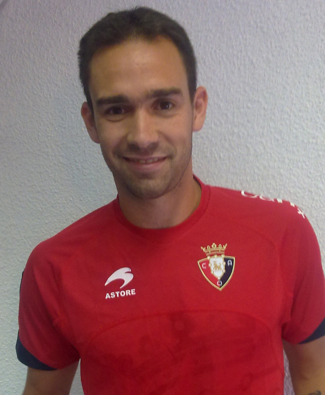 The andalusian player "Lolo" (Manuel Ortiz Toribio)with his new club Osasuna